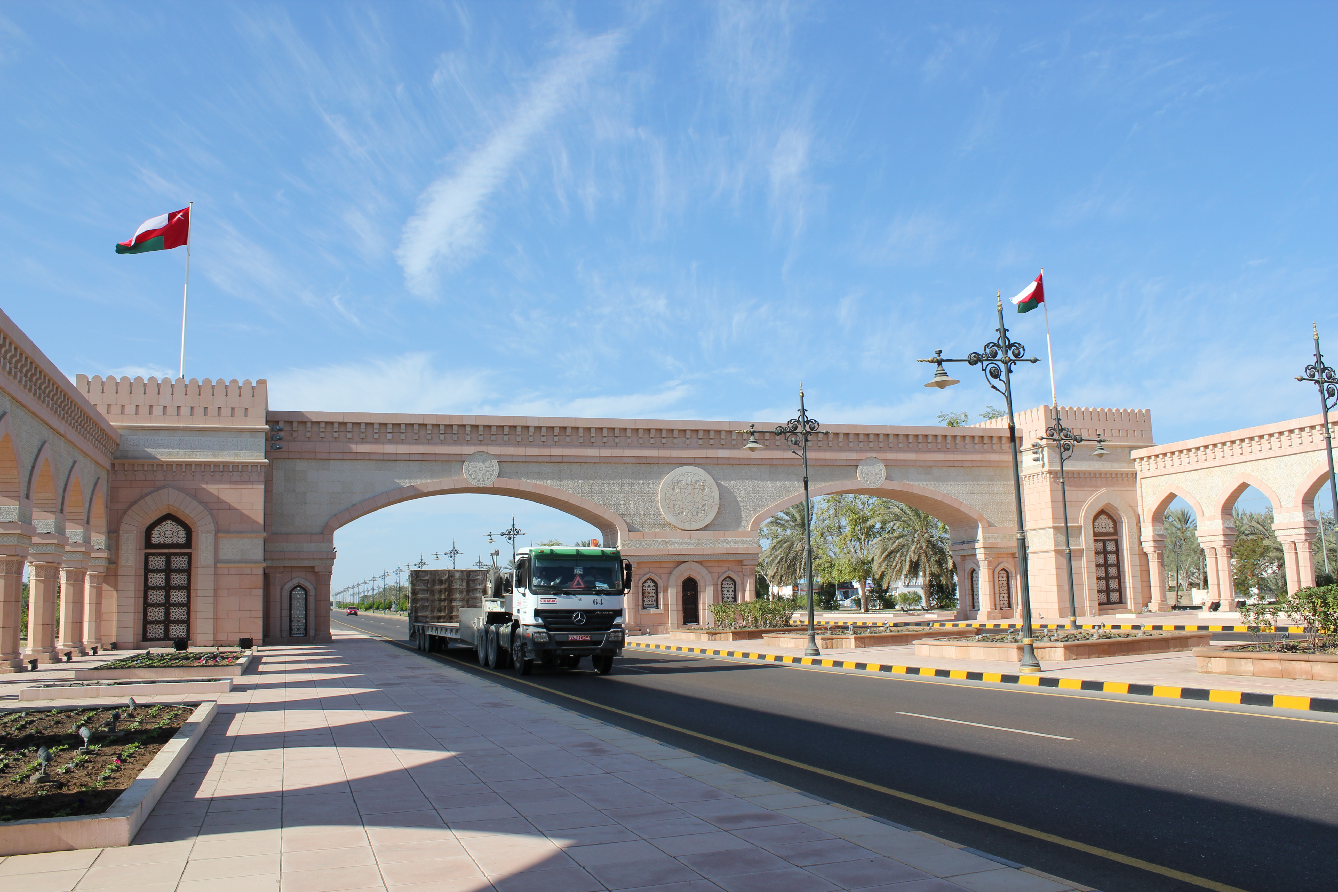 Sohar, Oman.